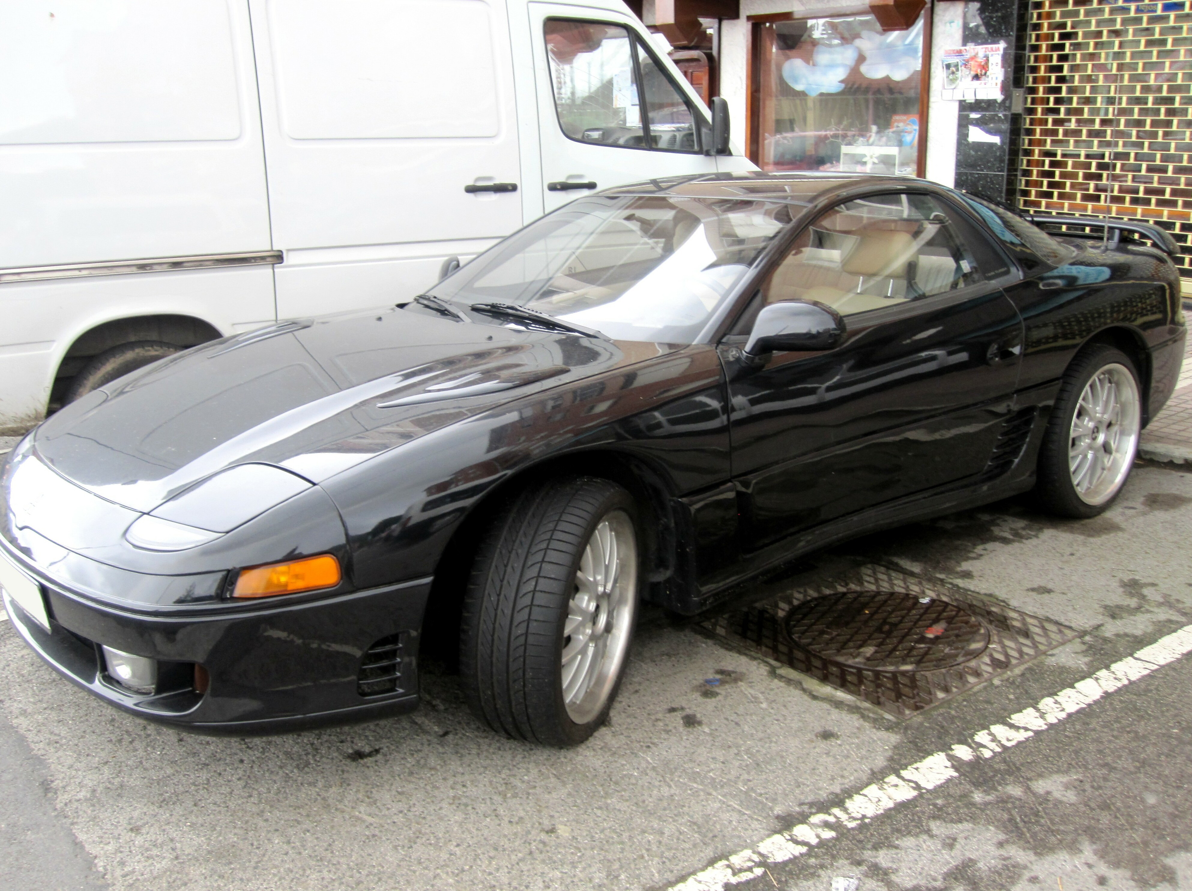 With US specs.